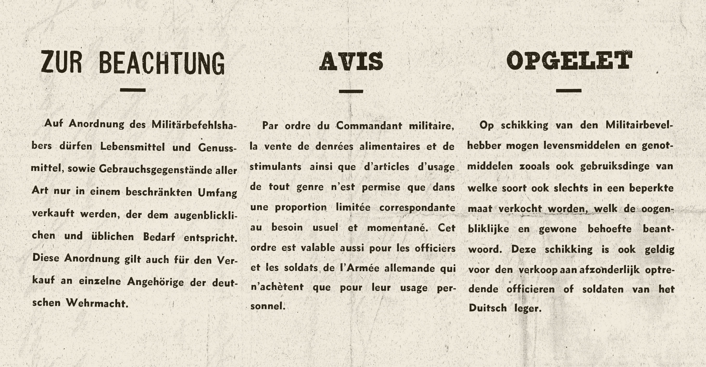 Trilingual (German-French-Dutch) proclamation from the German Military Administration of Belgium and Northern France (c.1941-2) concerning hoarding. The text reads: “Proclamation By order of the Military governor, the sale of foodstuffs and stimulants as well as articles of any all uses are not permitted except in a limited proportion, corresponding to a common or temporary need. This order is also applicable to soldiers of the German army who shall only purchase for their personal use.”